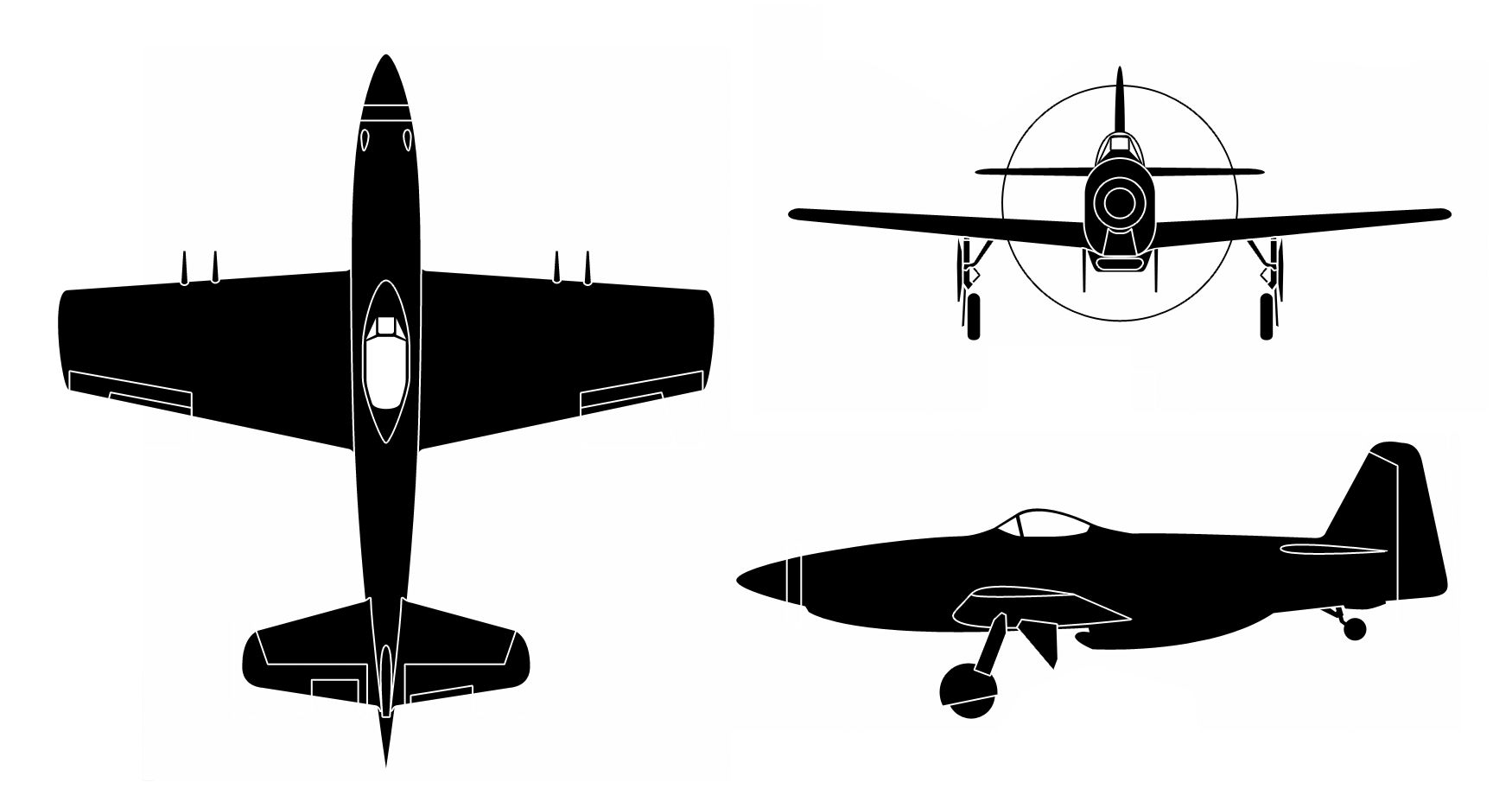 Martin-Baker M.B.5 3-view